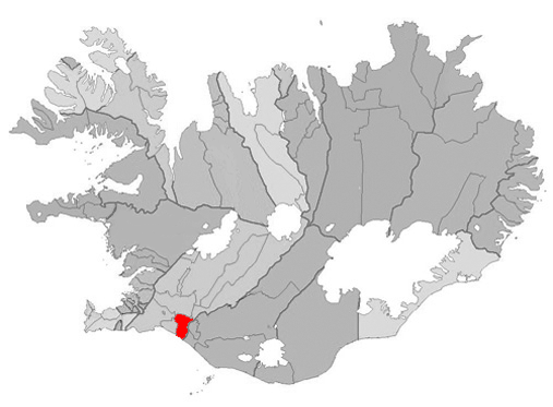 Based on Municipalities of Iceland.png.